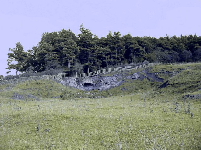 Downhill Quarry (disused) near Halton Castle, Corbridge, Northumberland, England.